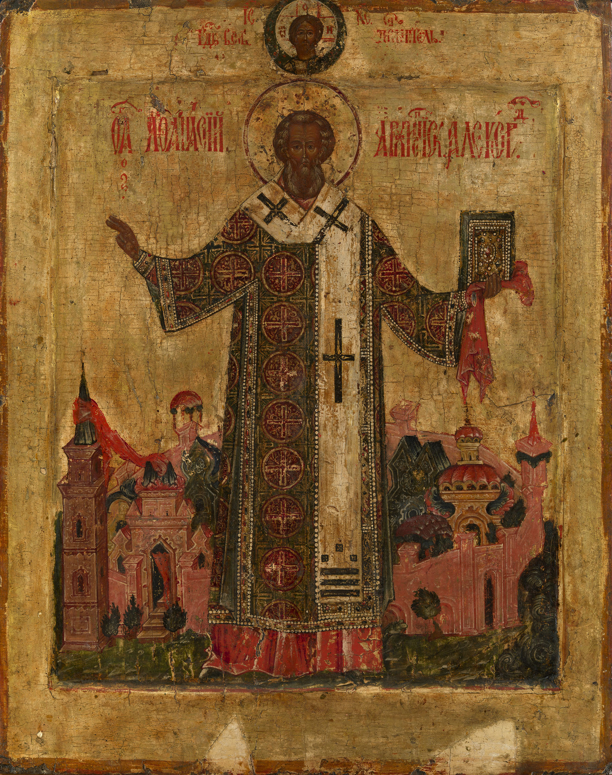 ST ATHANASIOS, ARCHBISHOP OF ALEXANDRIA CENTRAL RUSSIA, MID 17TH CENTURY. 60 by 48 cm.